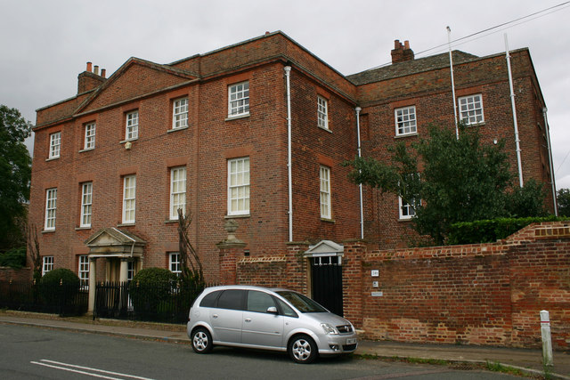 Farm Hall, West Street, Godmanchester © David Kemp - .uk/p/5129101